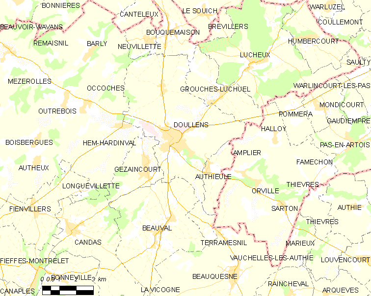 Map of French municipality Doullens